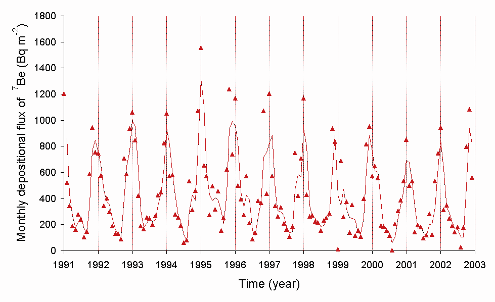 Graph of Be-7 deposited per month in Japan. The graph was drawn using data from a scientific paper.M. Yamamoto et al. Journal of Environmental Radioactivity, 2006, 86, 110-131